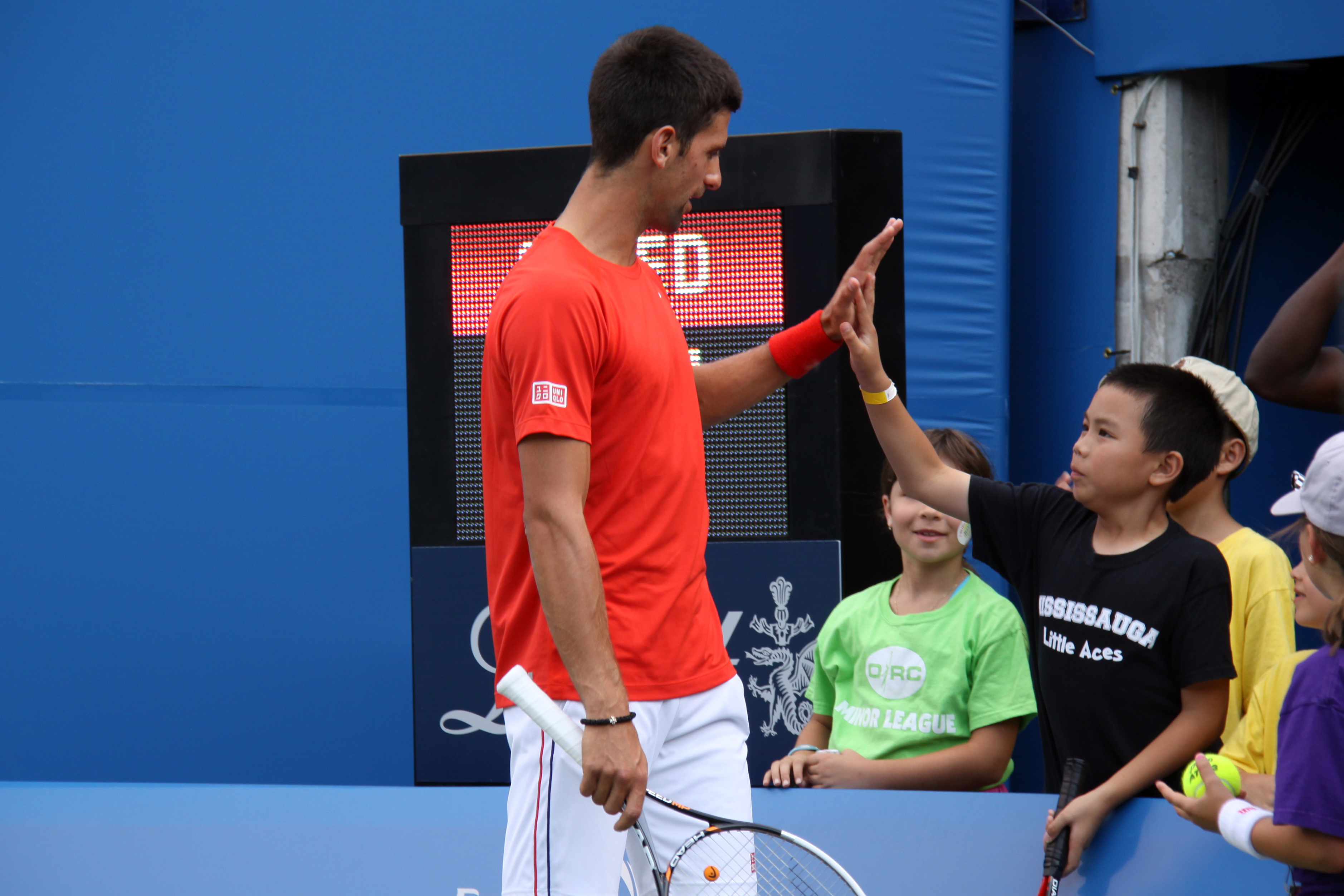 Rogers Cup Toronto 2012